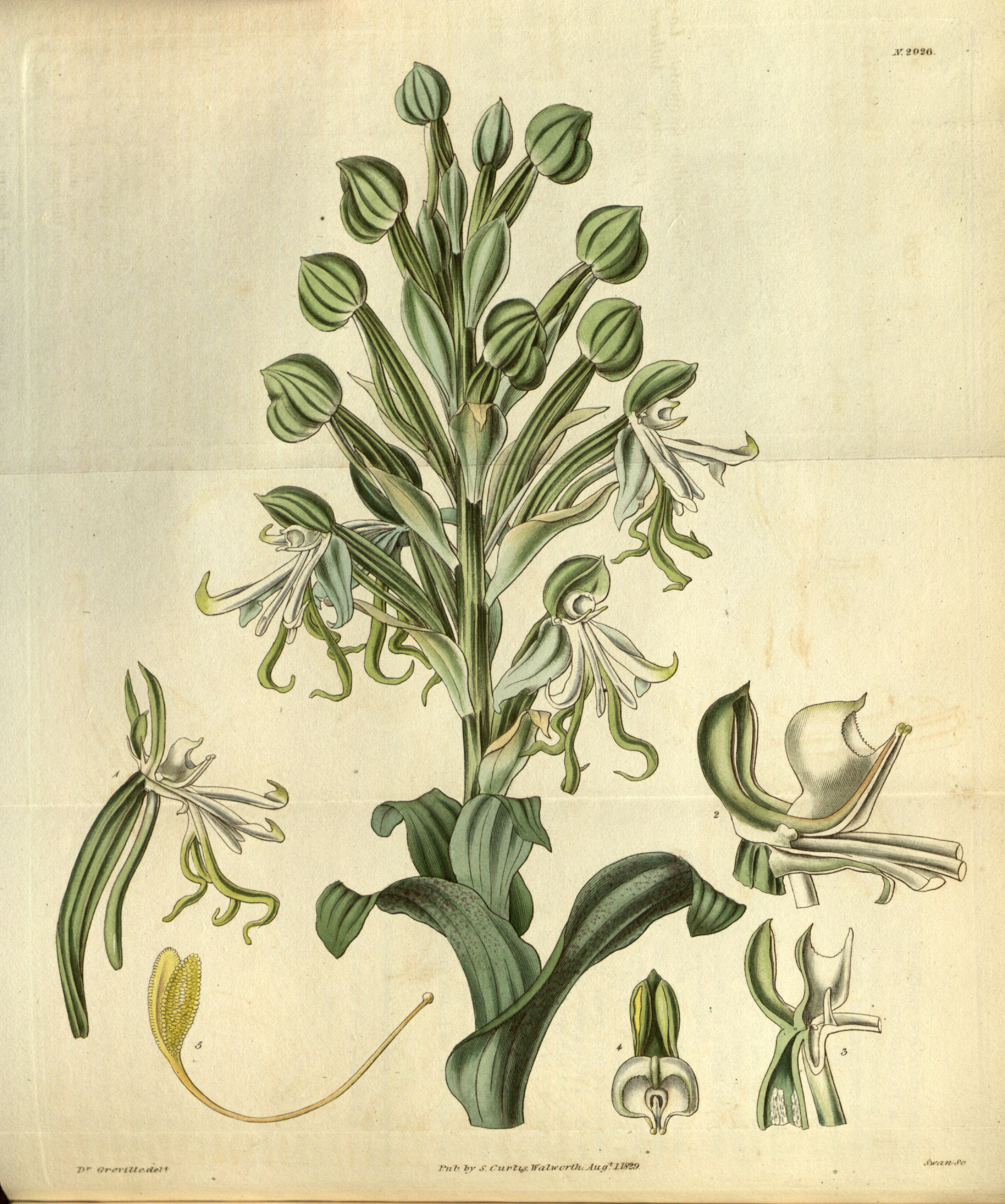 Illustration of Bonatea speciosa